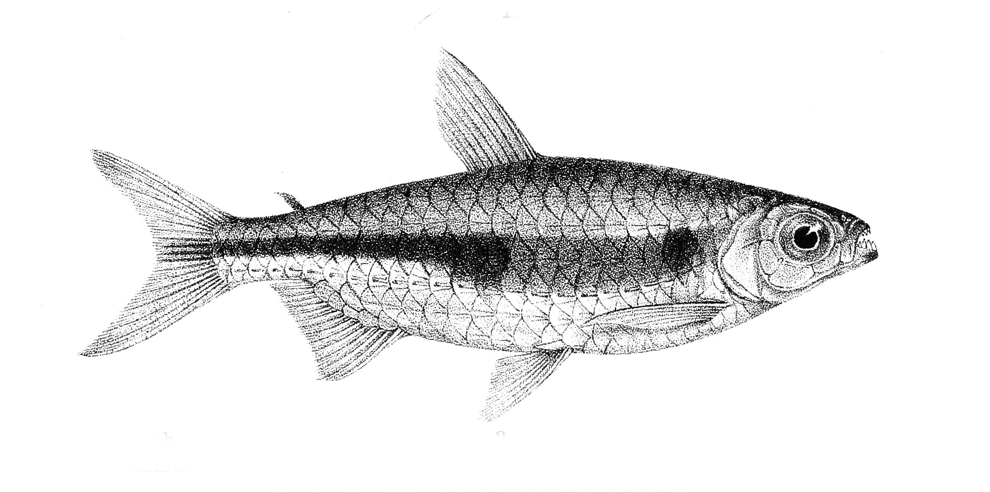 Brycinus opisthotaenia